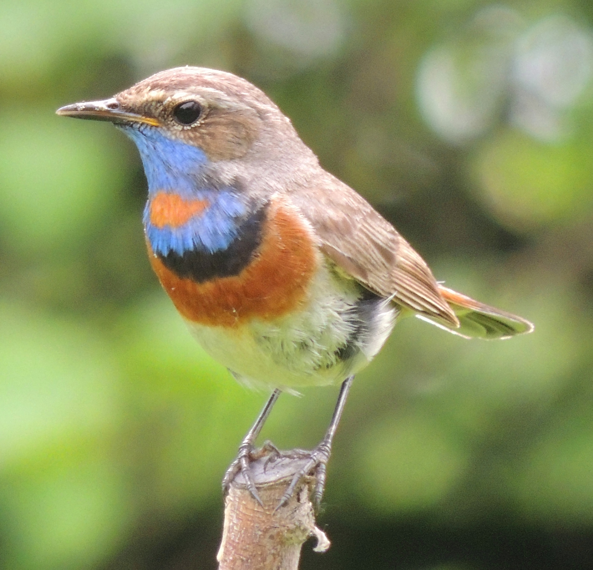 Bluethroat (Luscinia svecica volgae), Russia, Moscow Region, Elektrougli town